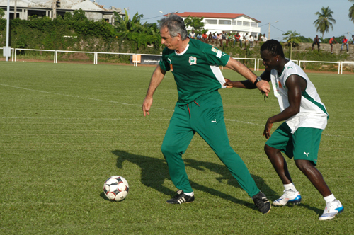 Vahid Halilhodžić, association football national coach of Cote d'Ivoire, with player Didier Ya Konan